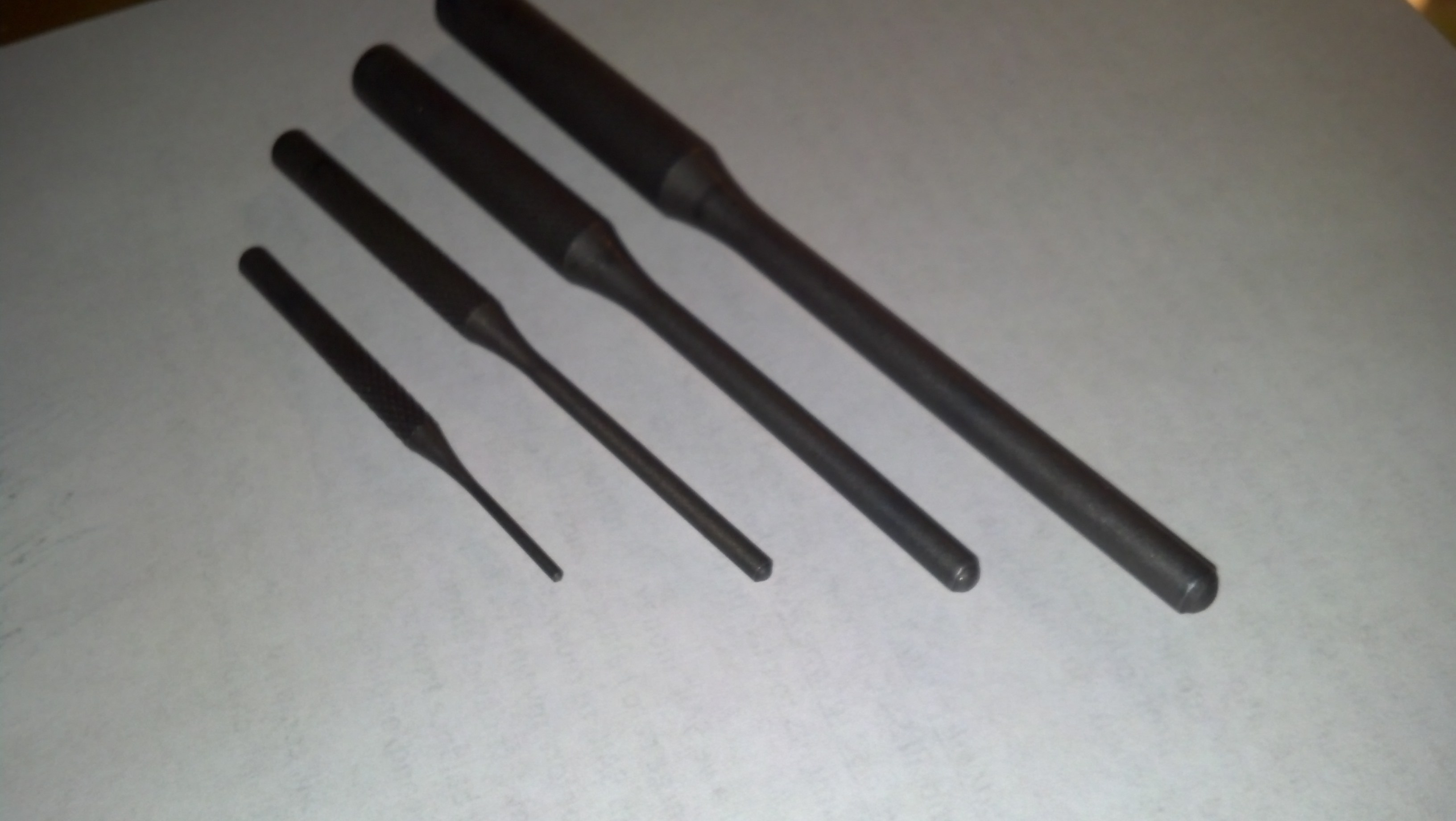 A selection of roll pin punches (tools).